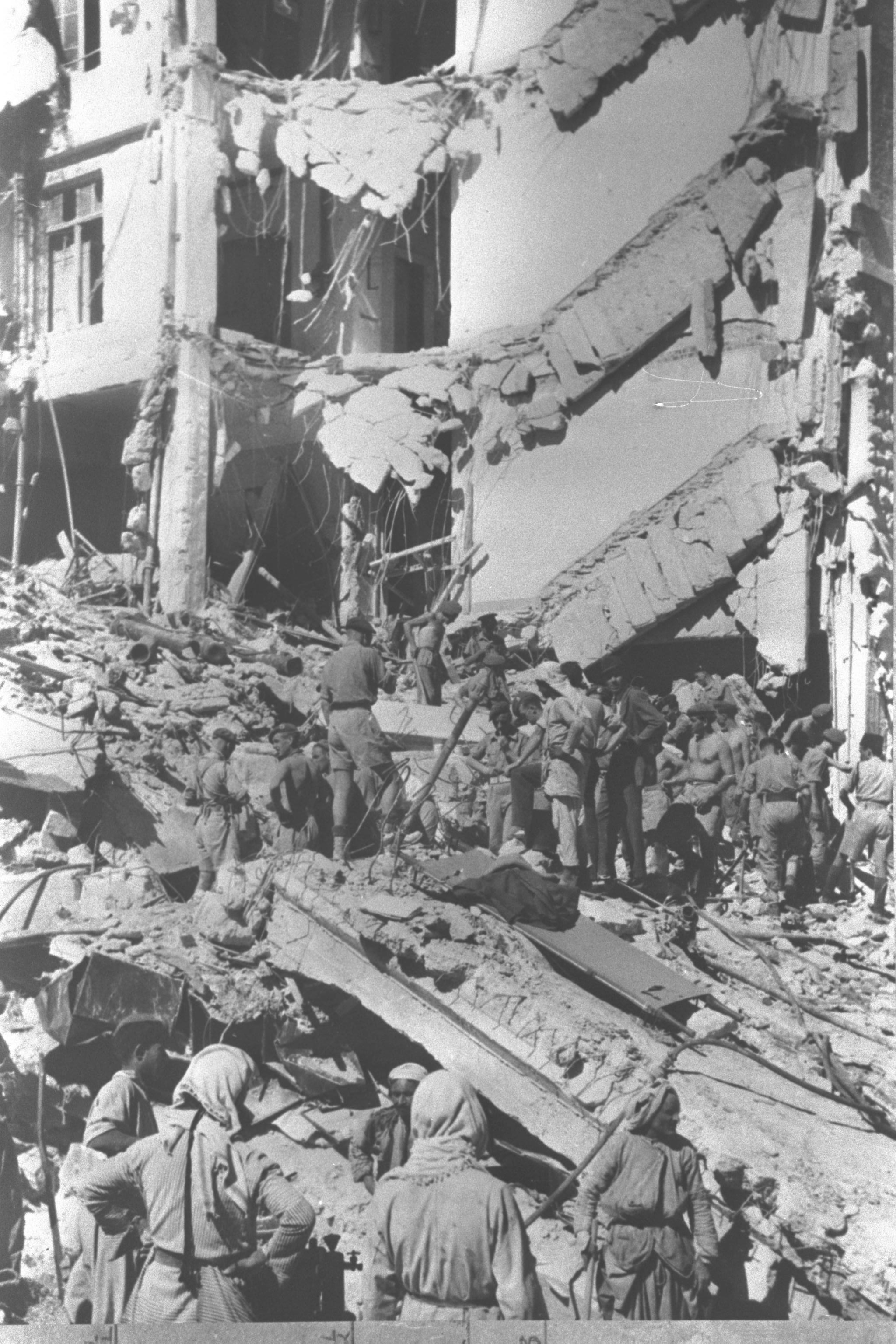 Rescue workers searching the ruins of the British centeral government offices in Jerusalem's "King David" hotel blown up by "Etzel" underground forces.